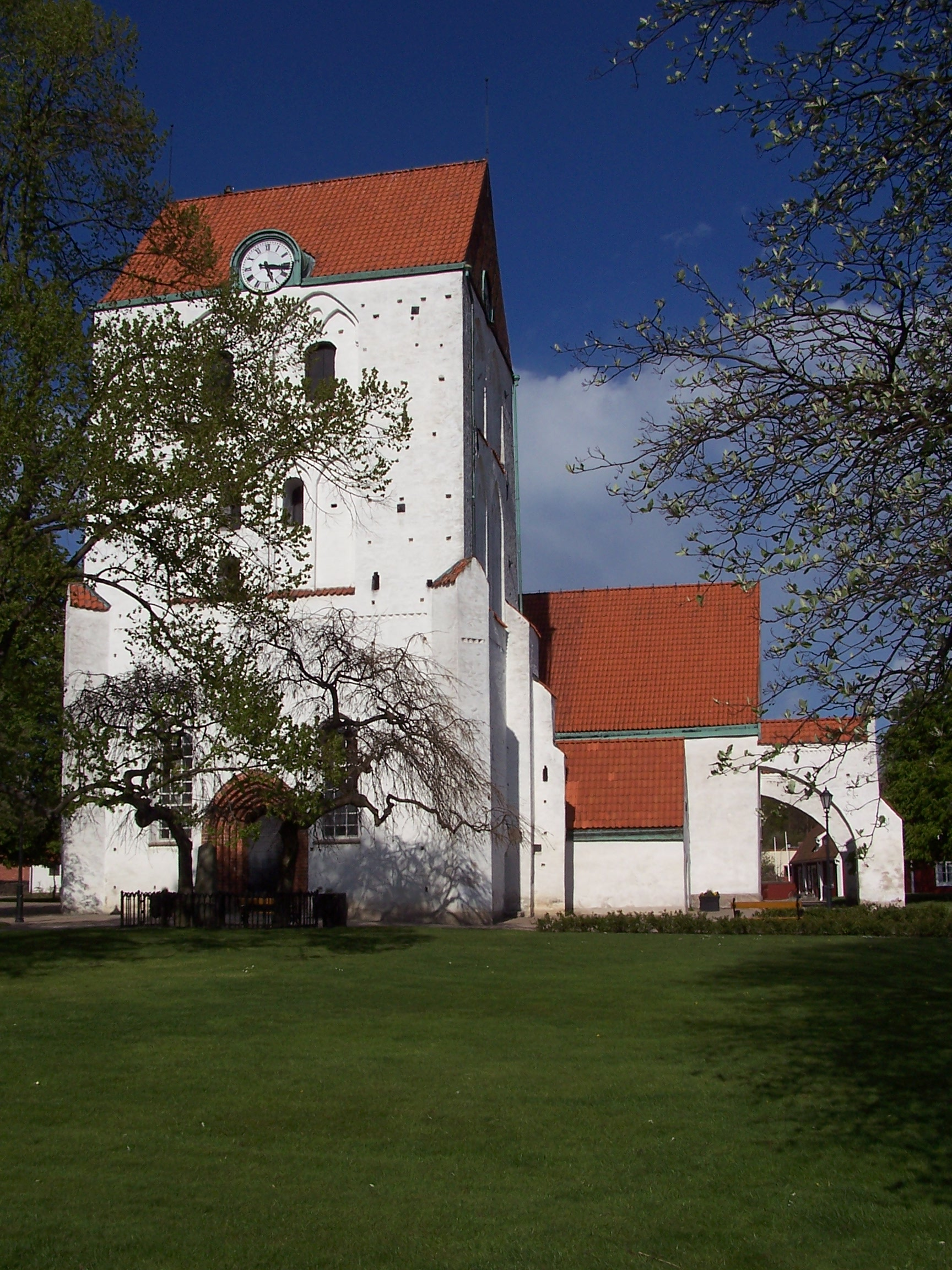 Heliga kors kyrka, Ronneby